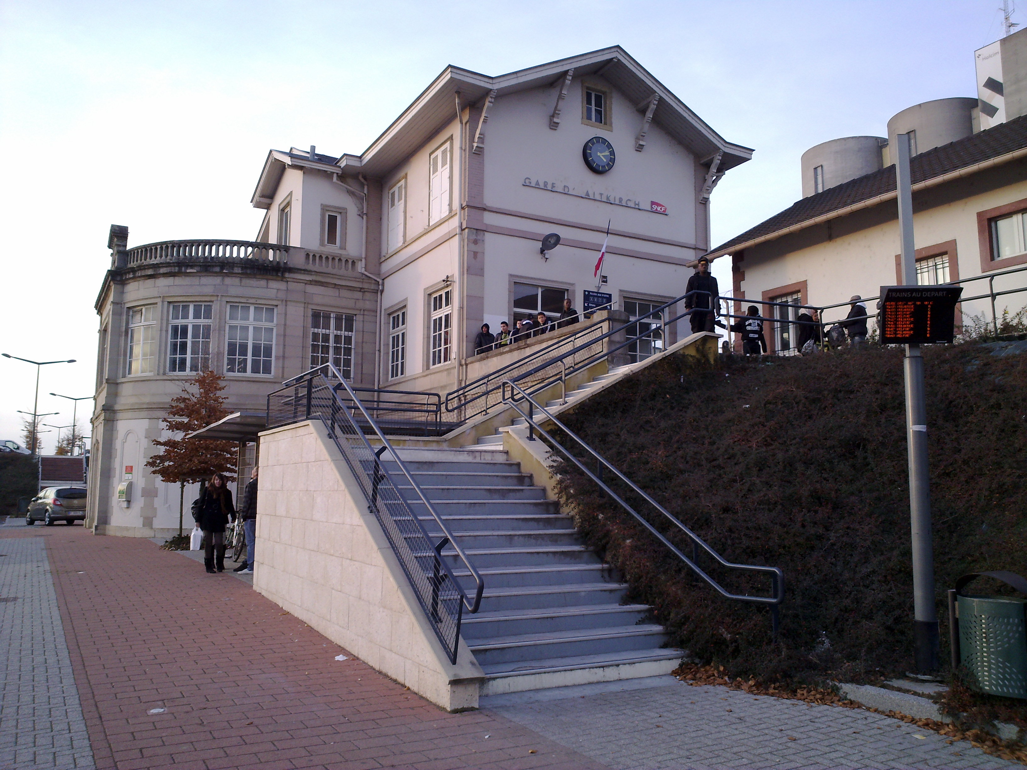 Altkirch SNCF railway station